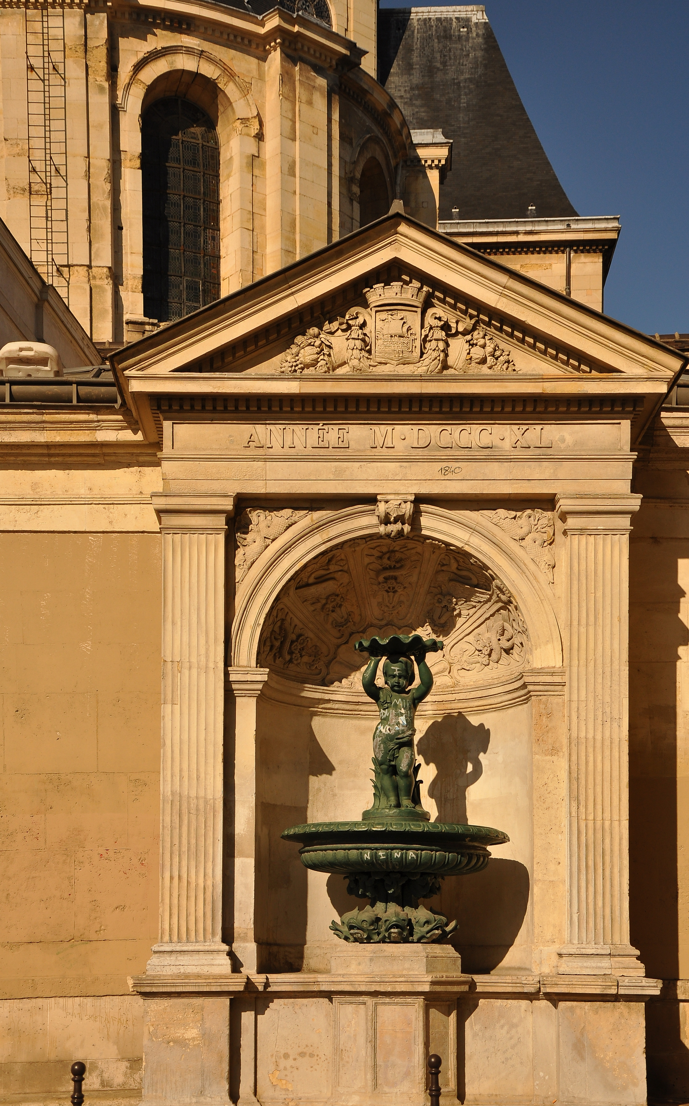 Fountain of Charlemagne located at 4th district of Paris in France. Installed at the backyard of Saint-Paul-Saint-Louis Church at 1840.